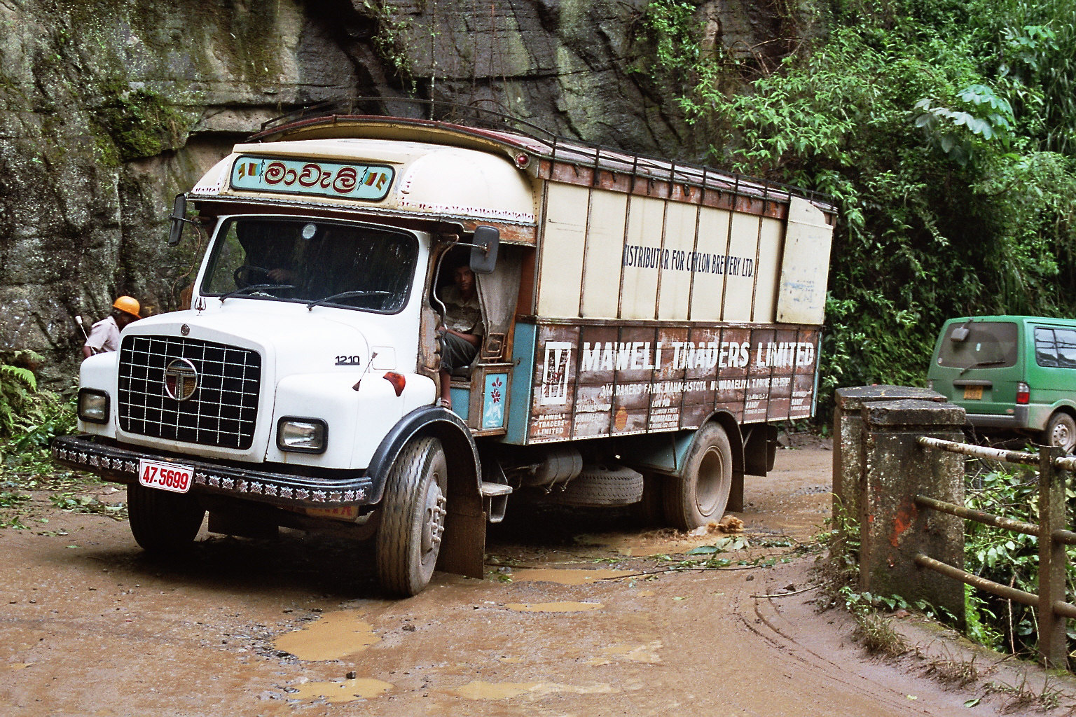 Tea factory in the highlands of Sri Lanka